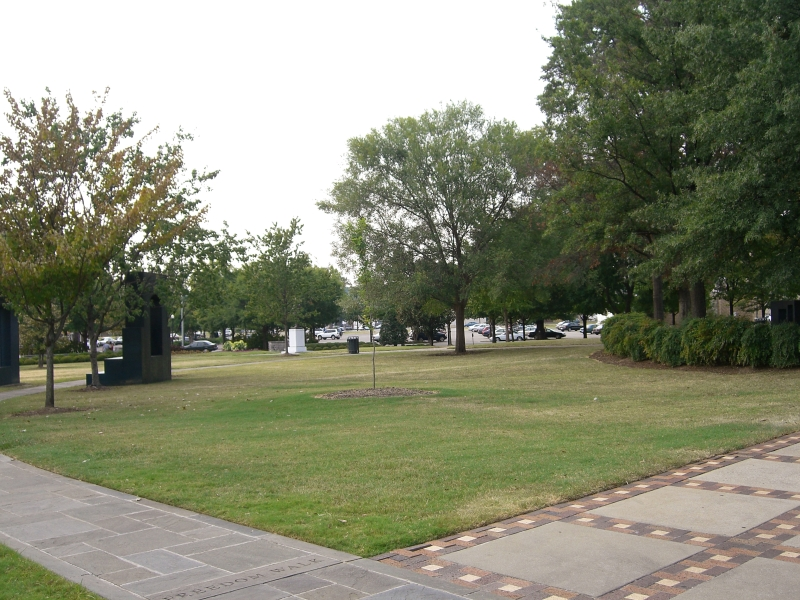 View of Kelly Ingram Park, Birmingham.